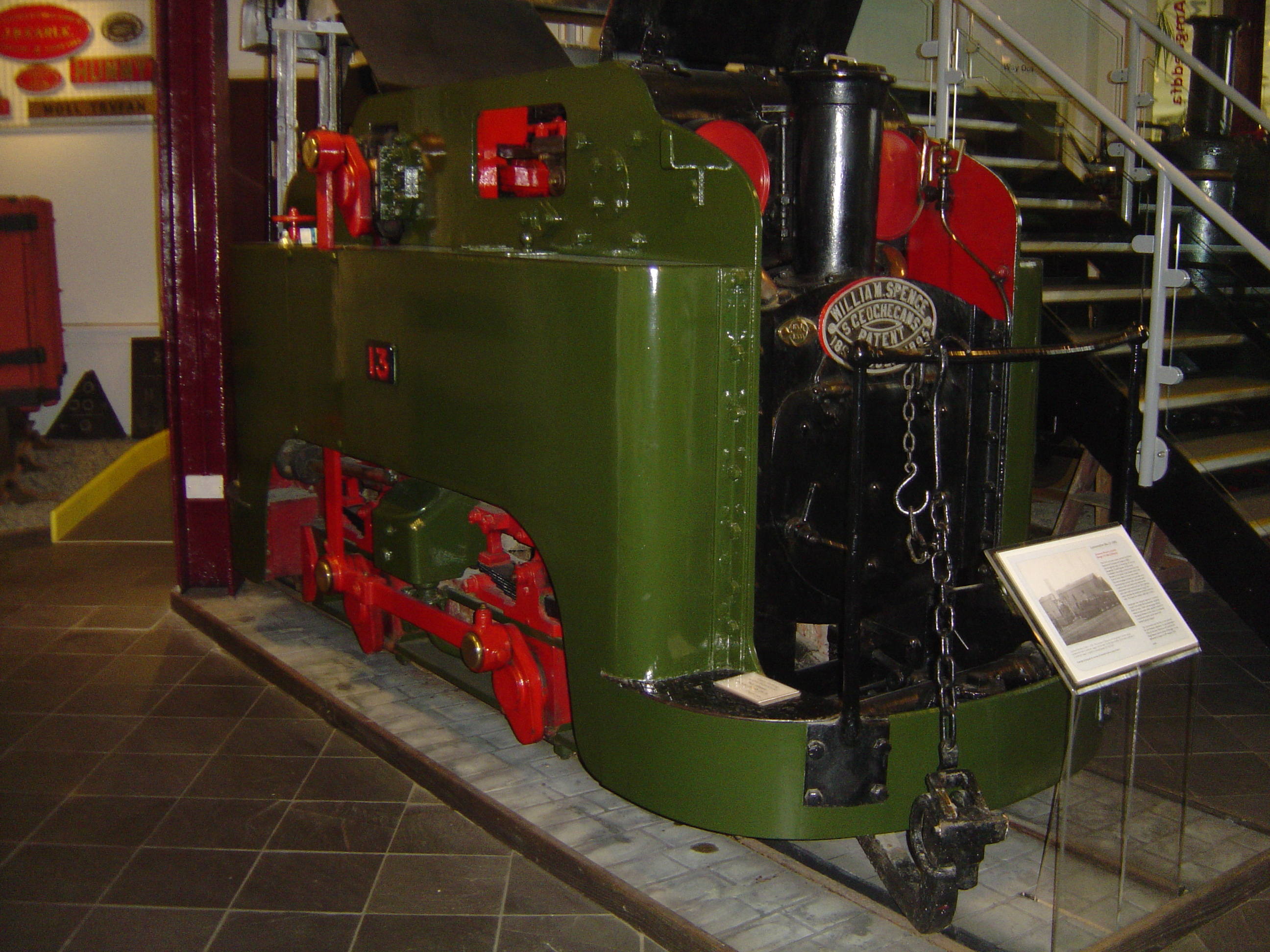 Former Guinness loco at the Narrow Gauge Railway Museum at the Talyllyn Railway